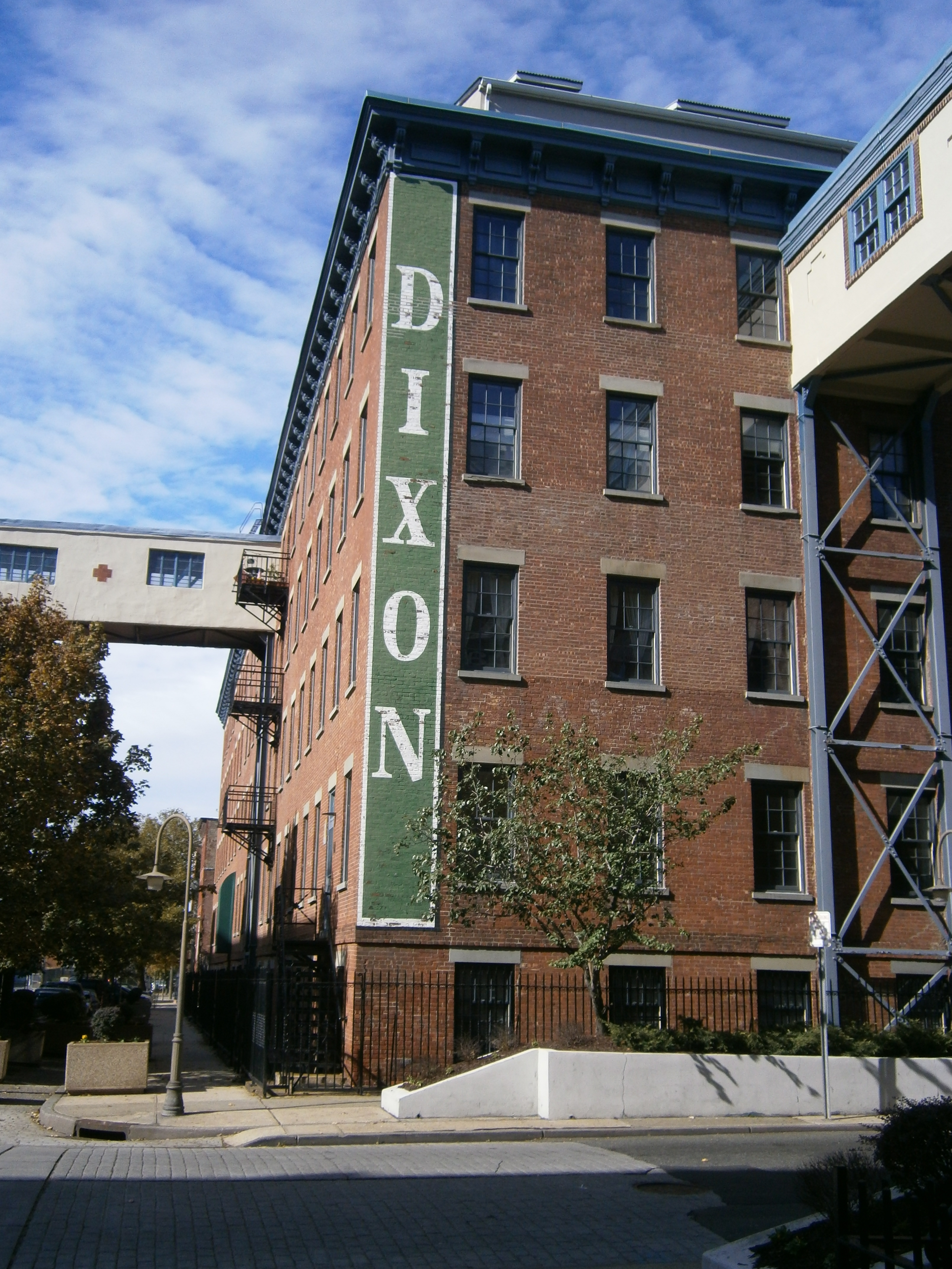 Dixon Mills in Downtown Jersey City (Van Vorst Park) was once part of Joseph Dixon Crucible Company